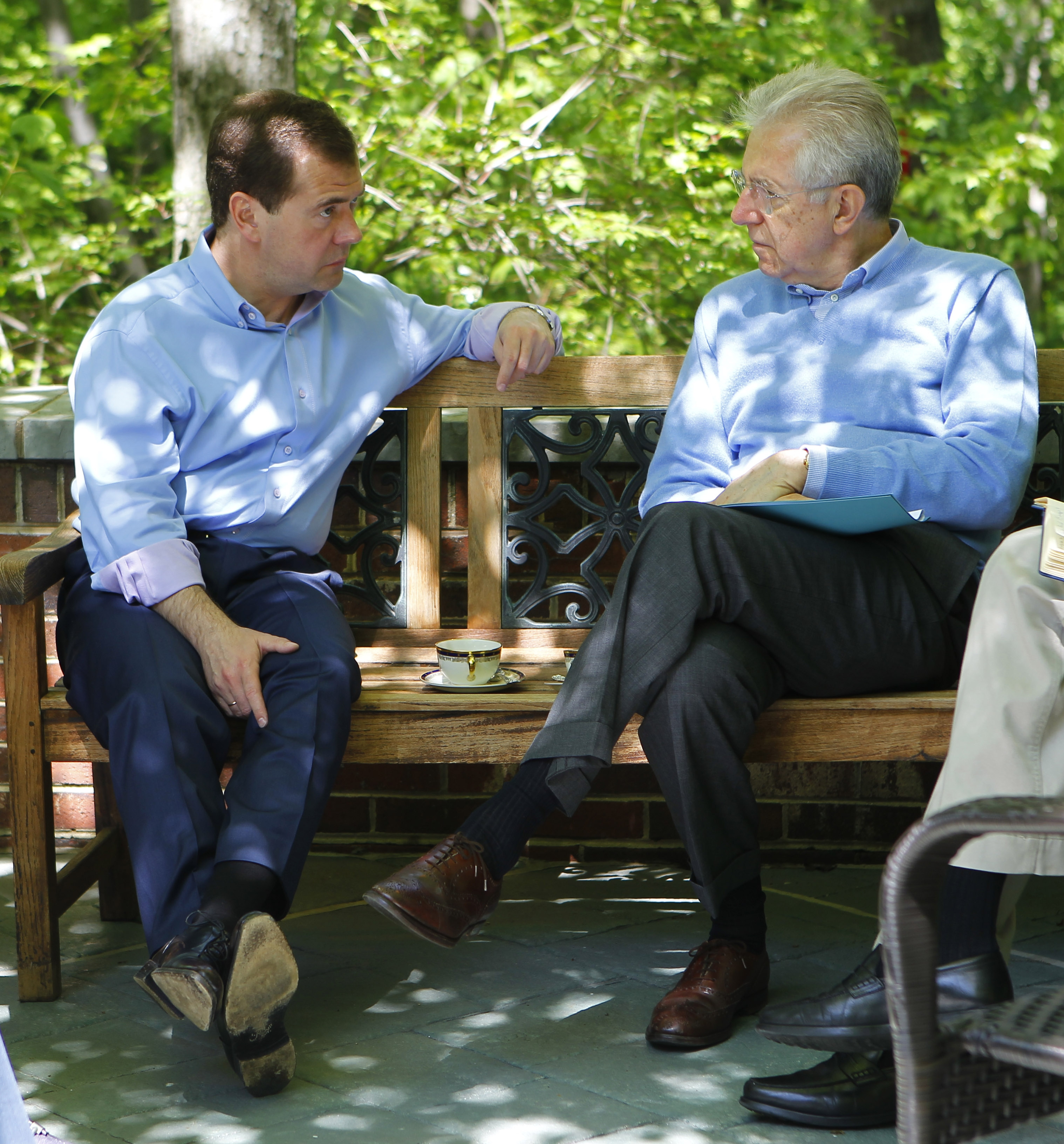 Russian Prime Minister Dmitry Medvedev and Italian Prime Minister Mario Monti during a bilateral meeting on the margins of the 38th G8 summit at Camp David, Maryland.